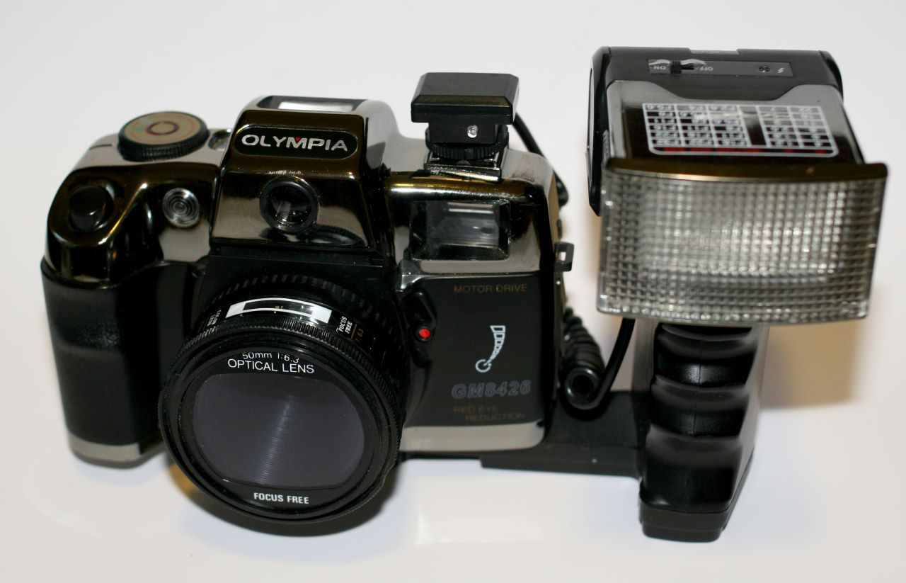 So, we've all seen these plastic "fake" SLRS with names that sound like famous brands but are marketed for outrageous prices to suckers. Well, I found one in a thrift-store for a few bucks and decided to see what kind of photos the "Optical lens" can produce.